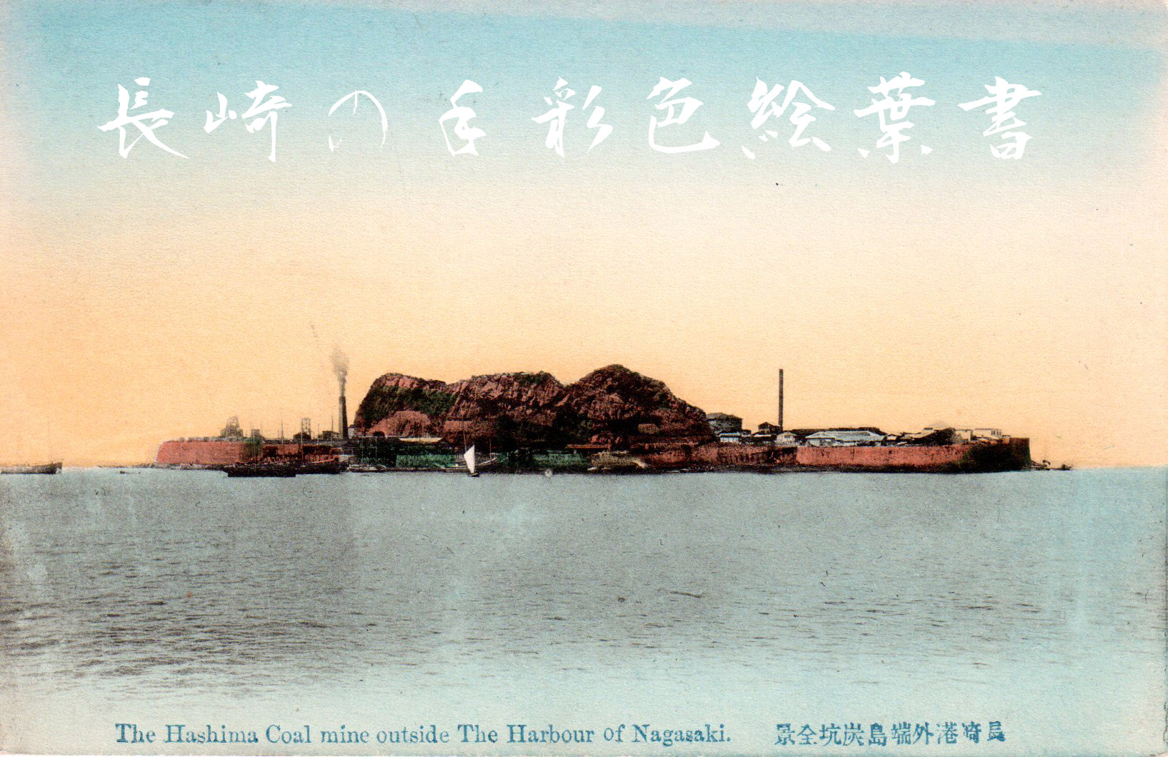 Japanese hand tinted postcard of the Hashima Coal Mine outside of Nagasaki Harbor